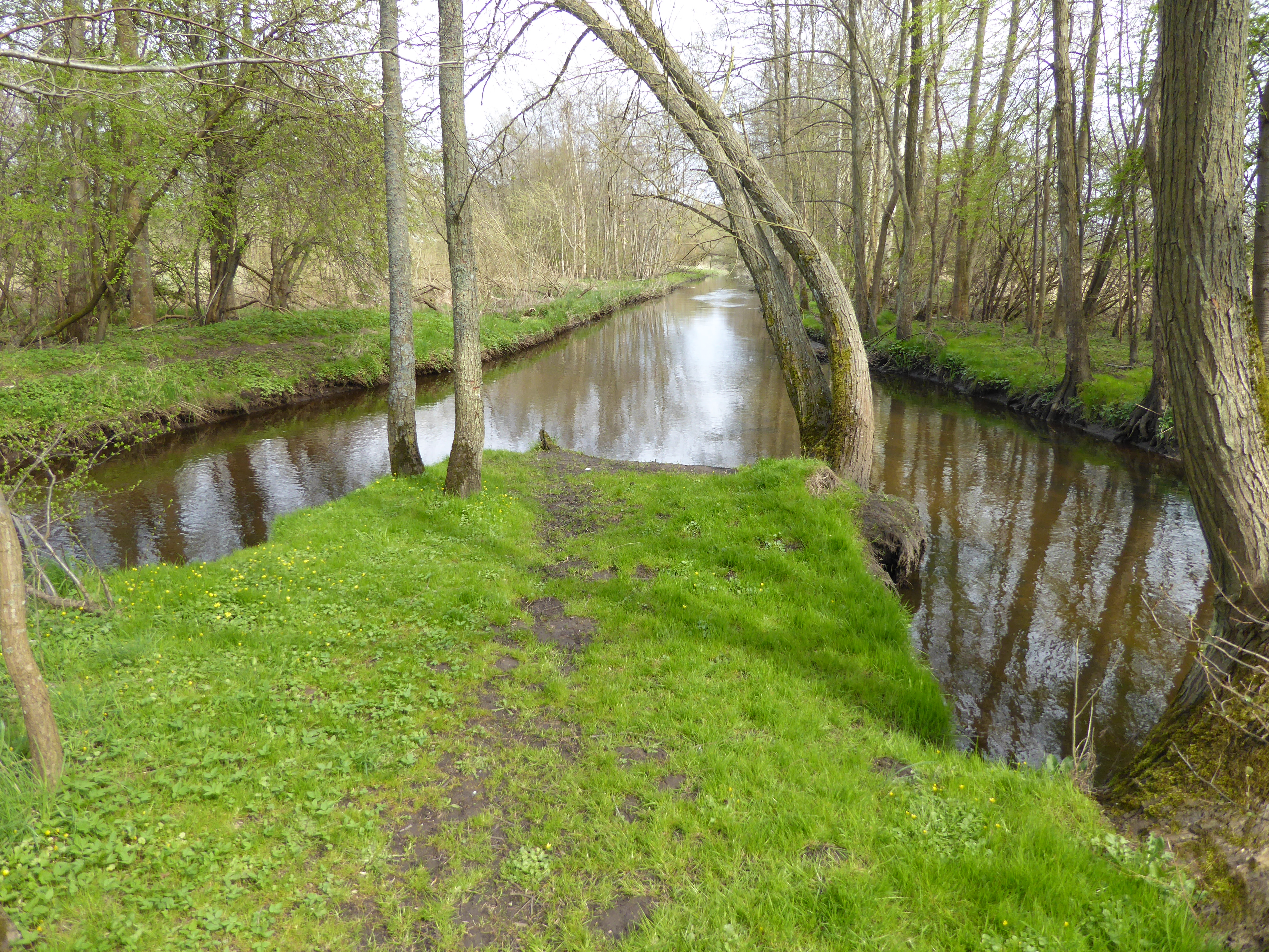 The confluence of Usserød Å (right) and Nive Å (left= at Nive Mølle in Nive, Denmark